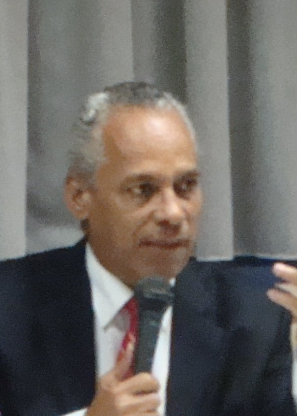 French deputy Daniel Goldberg with Democrats' Crystal Fleming French deputy Victorin Lurel at a debat on Barack Obama on October 8th 2008 in La Courneuve (France).